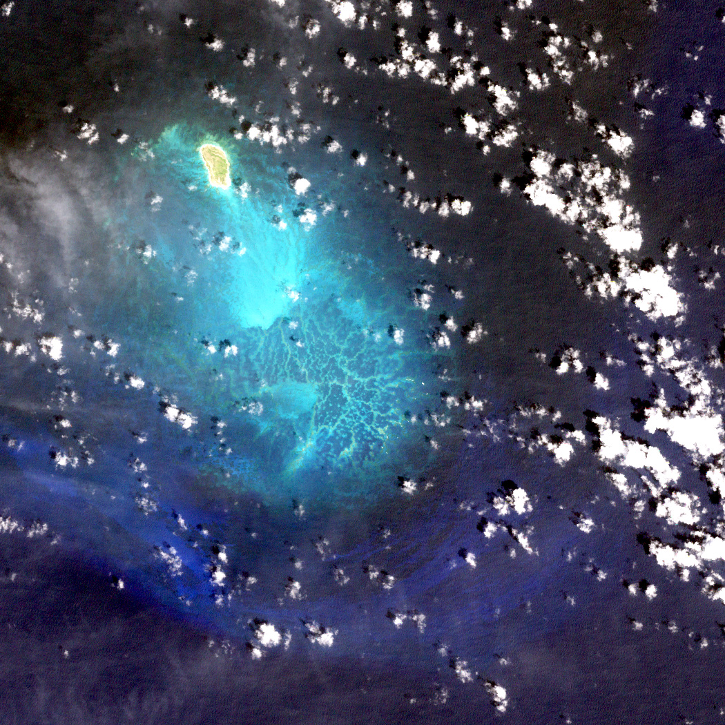 Lisianski Island with Neva Shoals, Northwestern Hawaiian Islands - Satellite image from USGS' Landsat7 Satellite